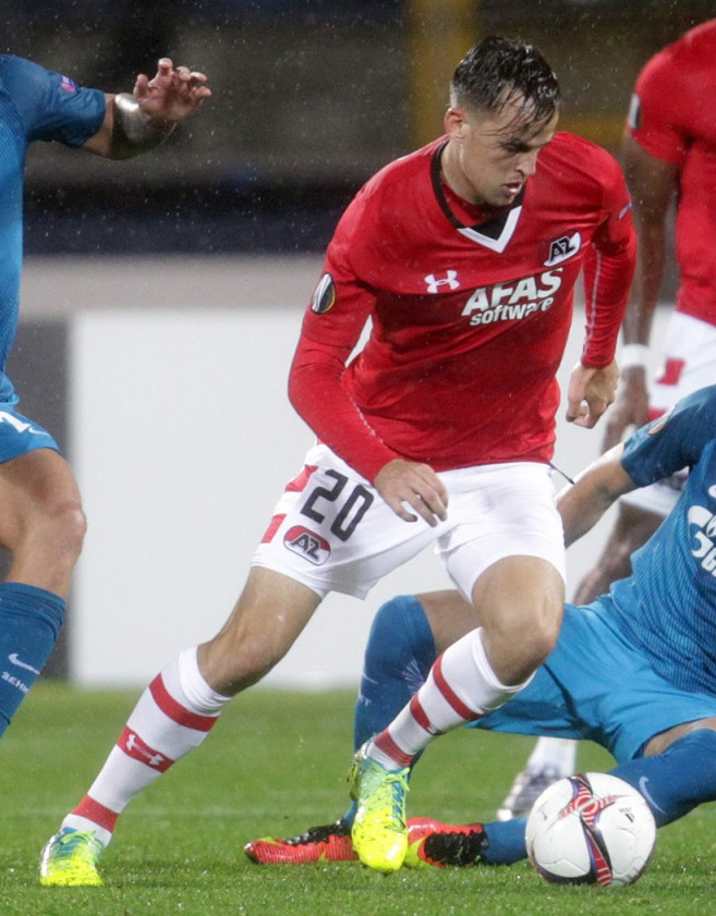 Mats Seuntjens playing for AZ in a game against FC Zenit Saint Petersburg.